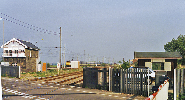 Helpston Station (remains). View SW, towards Peterborough; ex-Midland (Leicester) - Manton - Peterborough secondary main line, here running parallel with ex-Great Northern East Coast Main Line (ECML) (Peterborough North - Grantham section). Helpston Station closed on 6/6/66. On the ECML, on which Helpston signalbox seems to have been still in use in 1995, an Down IC225 electric express is speeding by and an Up IC225 is rapidly receding into the distance.